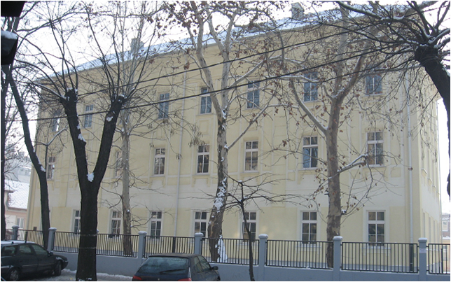 School -street view